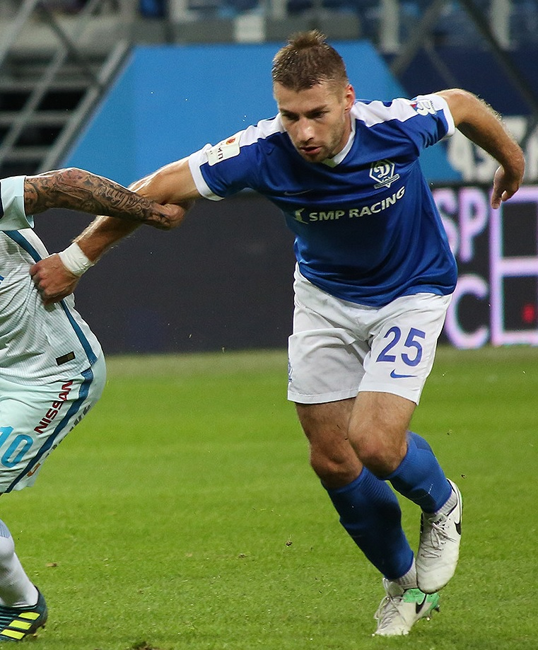 Andrei Bychkov with FC Dynamo St. Petersburg in a Russian Cup game against FC Zenit St. Petersburg.